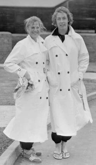 Marise Chamberlain and Valerie Sloper at the British Empire Games, Cardiff, United Kingdom